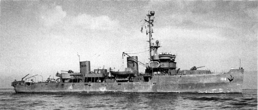 c. 1943 Naval Institute Archives photo from the February 2009 edition of Naval History magazine